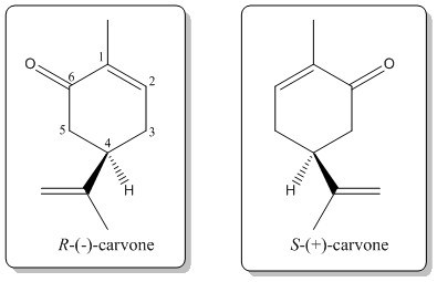 carvone-enantiomers1